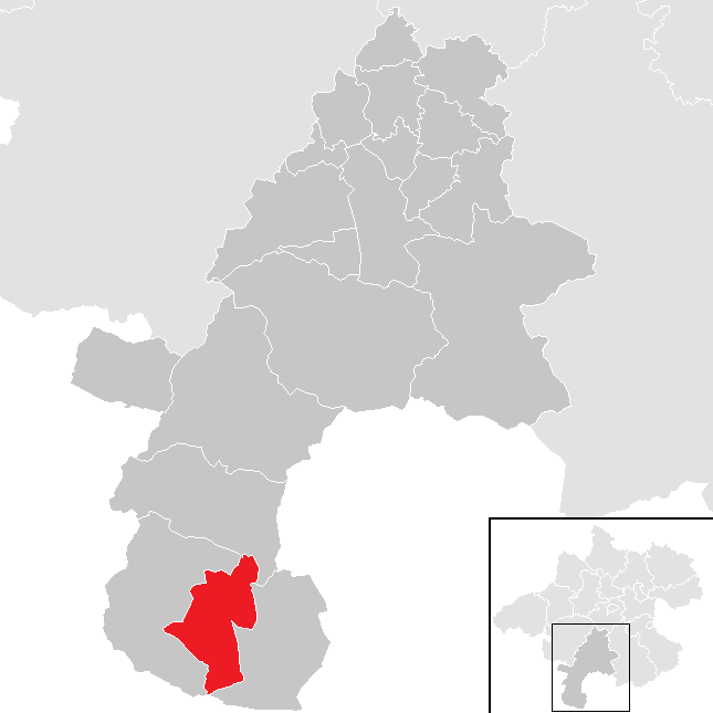 district Gmunden